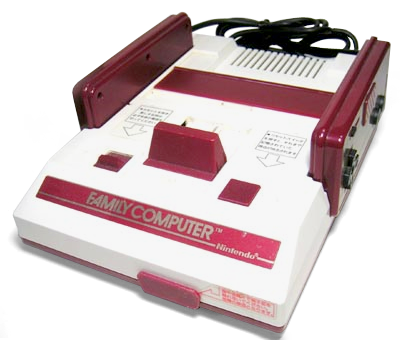 A japanese Nintendo Family Computer (Famicom) games console, the equivalent of the Nintendo Entertainment System (NES) sold in most of the rest of the world.